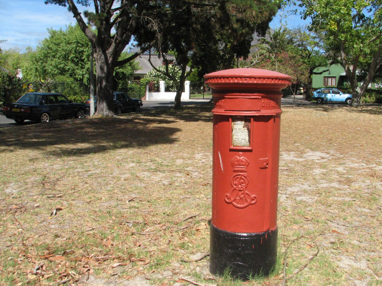 King Edward VII post box in The Mead, Pinelands, South Africa